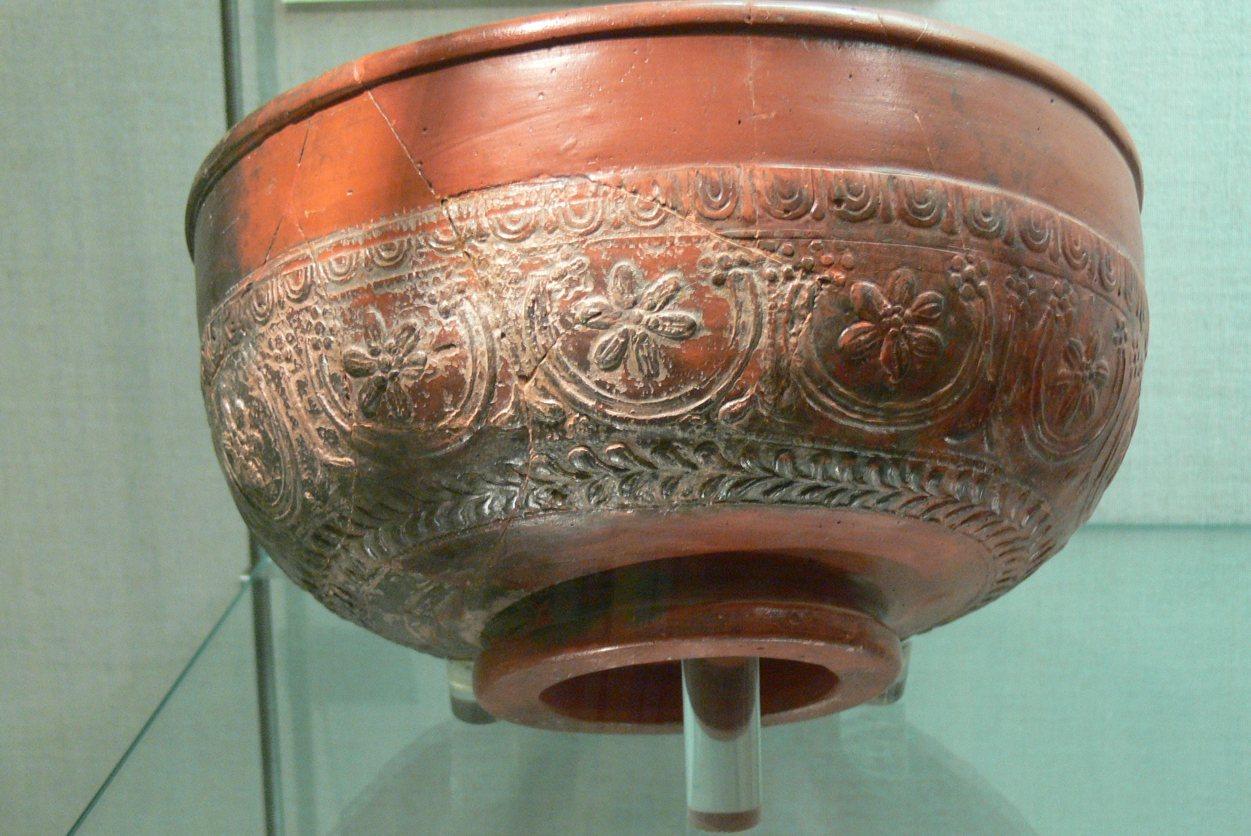 Weißenburg ( Bavaria ). Roman Museum: Terra sigillata bowl from Kastell Gnotzheim.